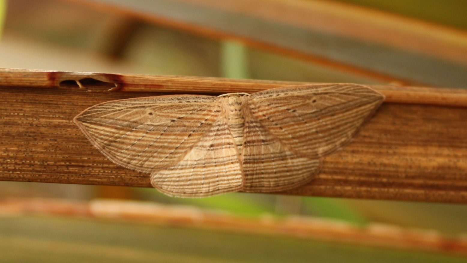 A Cabbage Tree Moth (Epiphryne verriculata) on a flax (Phormium species) leaf.